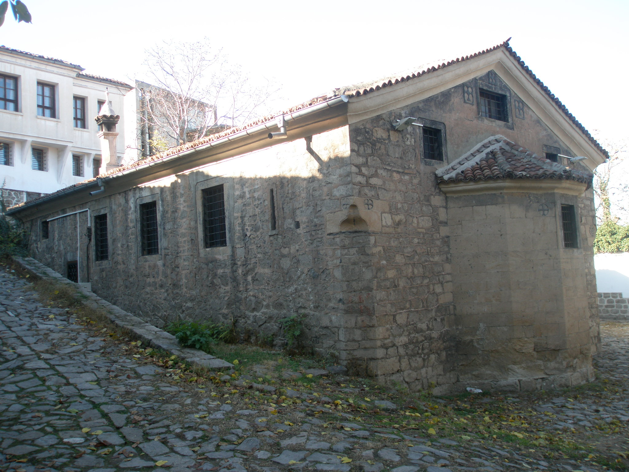 фасада